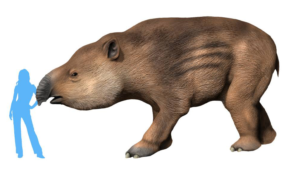 Restoration of Barytherium grave